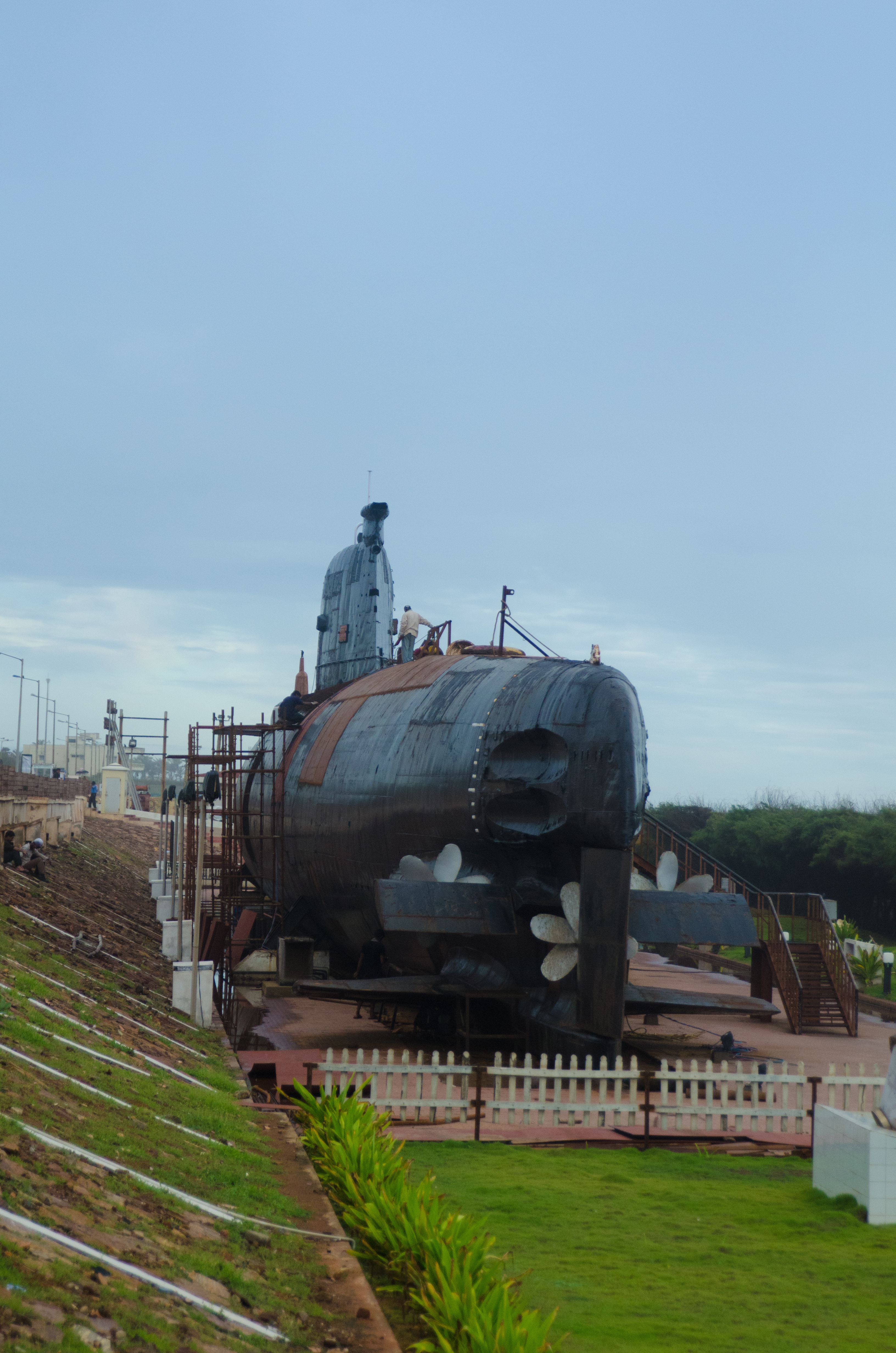 The Indian submarine museum INS Kursura (S20) undergoes repairs